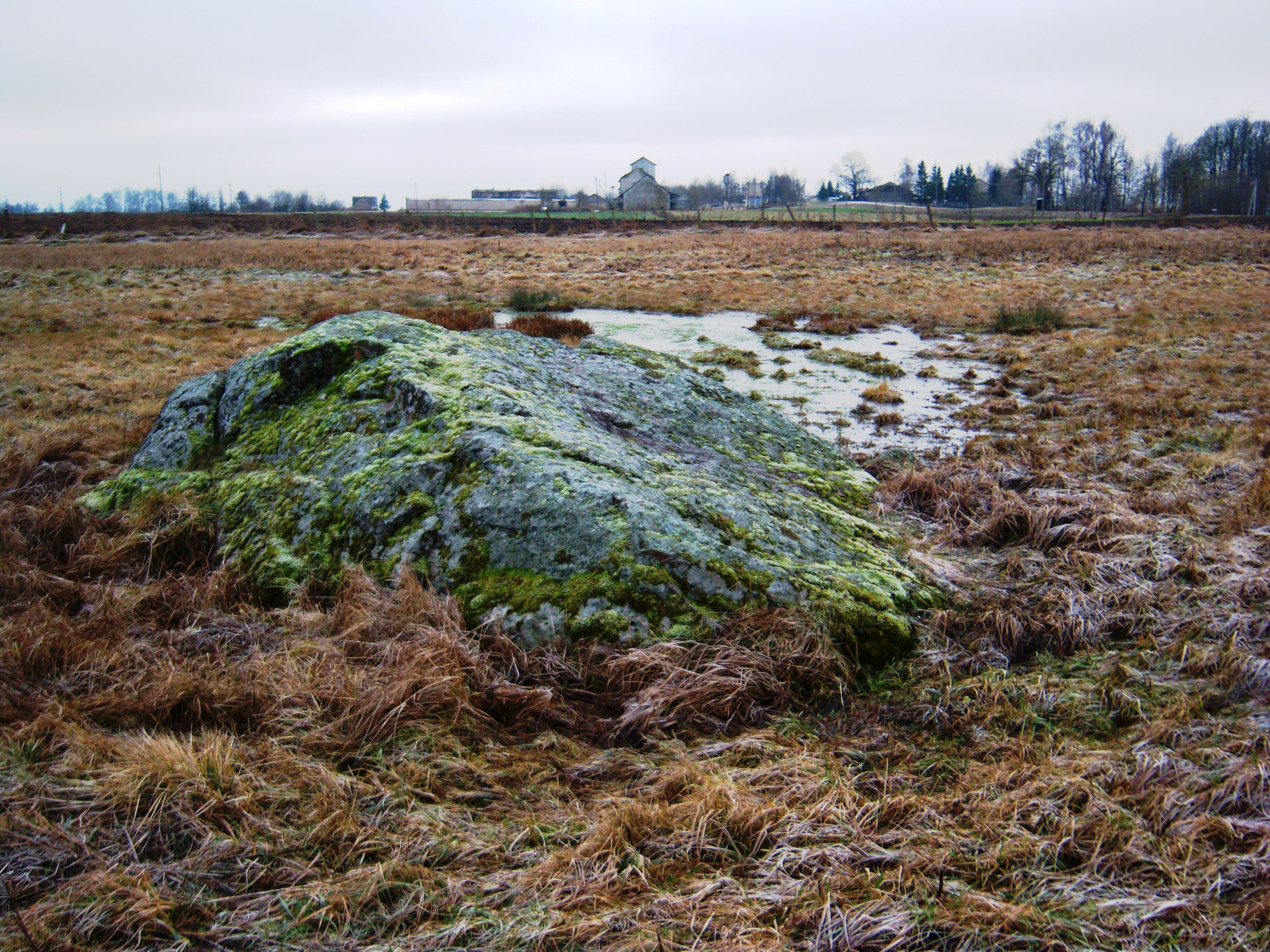 Johampolis Stone The Great, Kelmė District, Lithuania